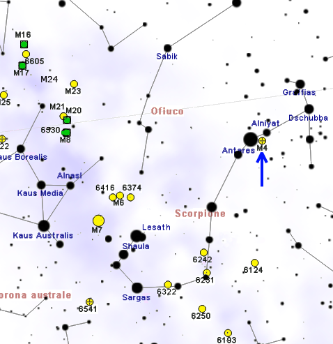 M4